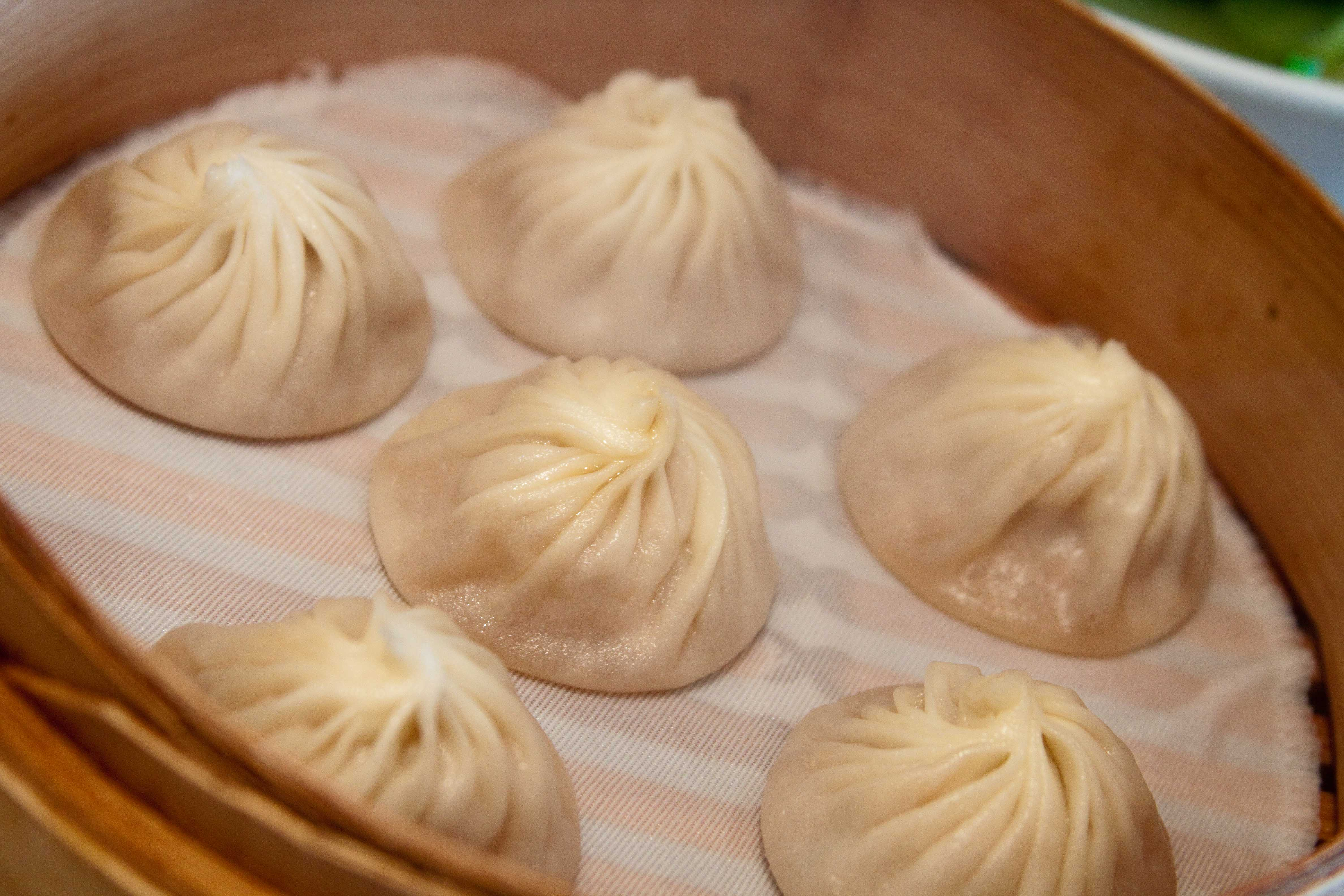 Xiaolungbao of Ding Tai Fung.